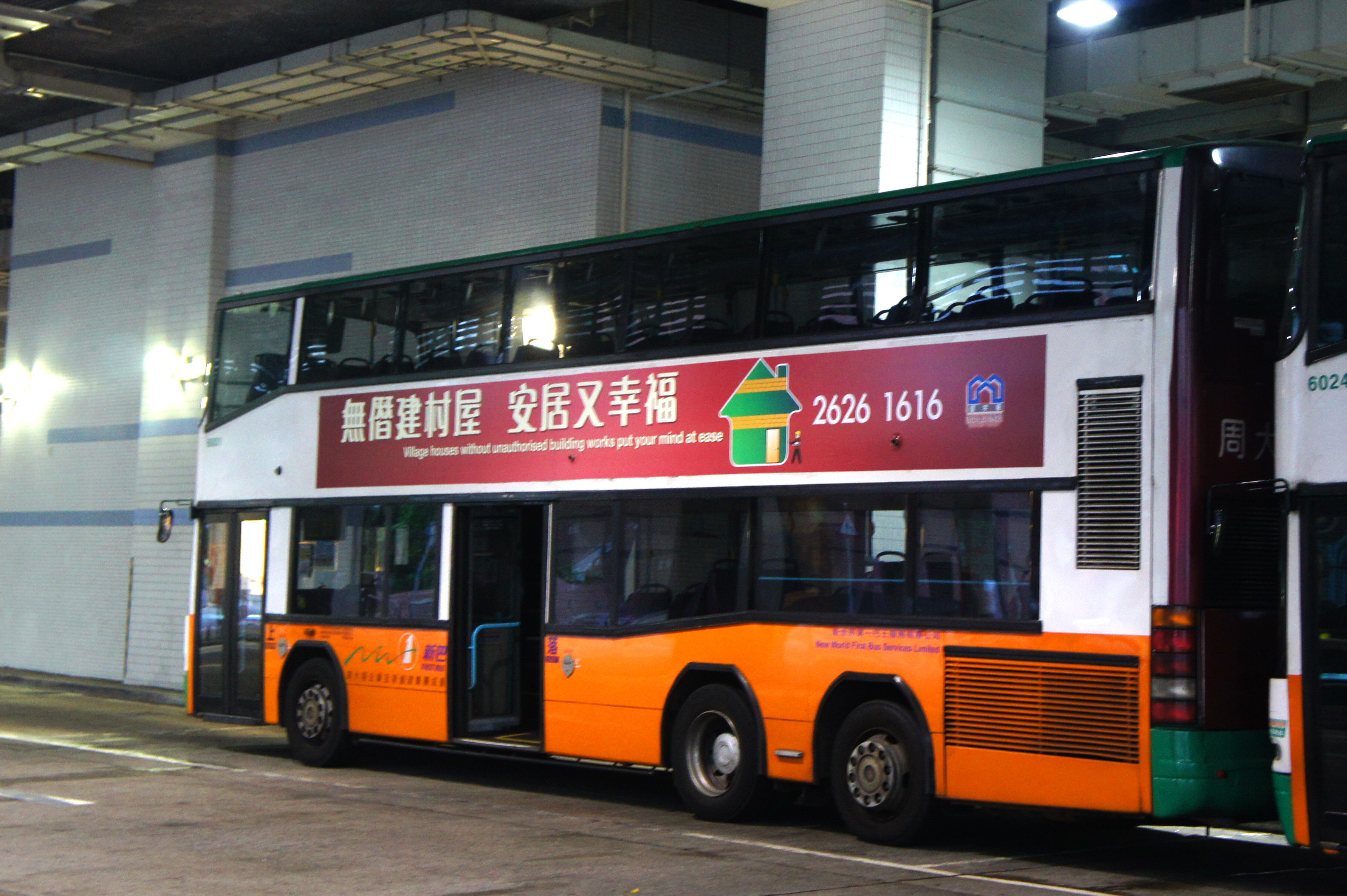 An advertisement from the Hong Kong Buildings Department showing "No Unauthorized Building Works in Village Houses".